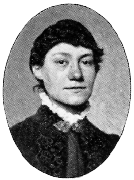 Image scanned from the book "Svenskt Porträttgalleri XX - Arkitekter, Bildhuggare, Målare m.fl. " ("Swedish Portrait Gallery XX - Architects, Sculptors, Painters, ") published 1901